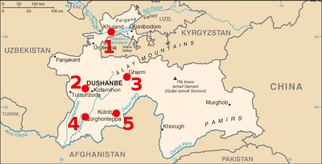 Number list of west tajik cities